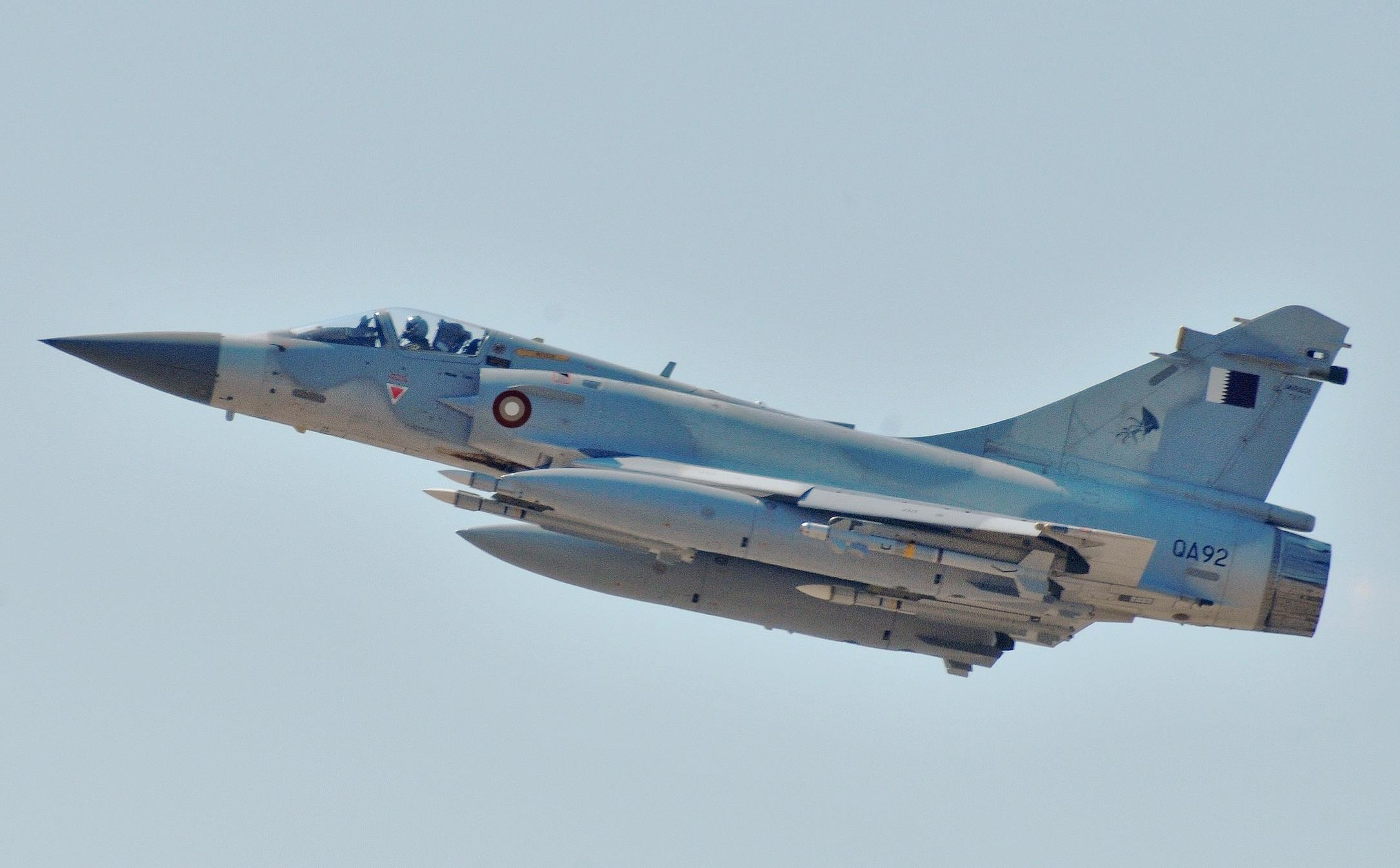 Souda Bay, Greece. A Qatar Emiri Air Force Dassault Mirage 2000-5 fighter jet takes off as part of a Joint Task Force Odyssey Dawn mission. Joint Task Force Odyssey Dawn is the U.S. Africa Command task force established to provide operational and tactical command and control of U.S. military forces supporting the international response to the unrest in Libya and enforcement of United Nations Security Council Resolution (UNSCR) 1973. UNSCR 1973 authorizes all necessary measures to protect civilians in Libya under threat of attack by Qadhafi regime forces. JTF Odyssey Dawn is commanded by U.S. Navy Adm. Samuel J. Locklear, III. (110325-N-M0201-067)